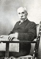 Picture of the spanish anatomist Julian Calleja y Sánchez